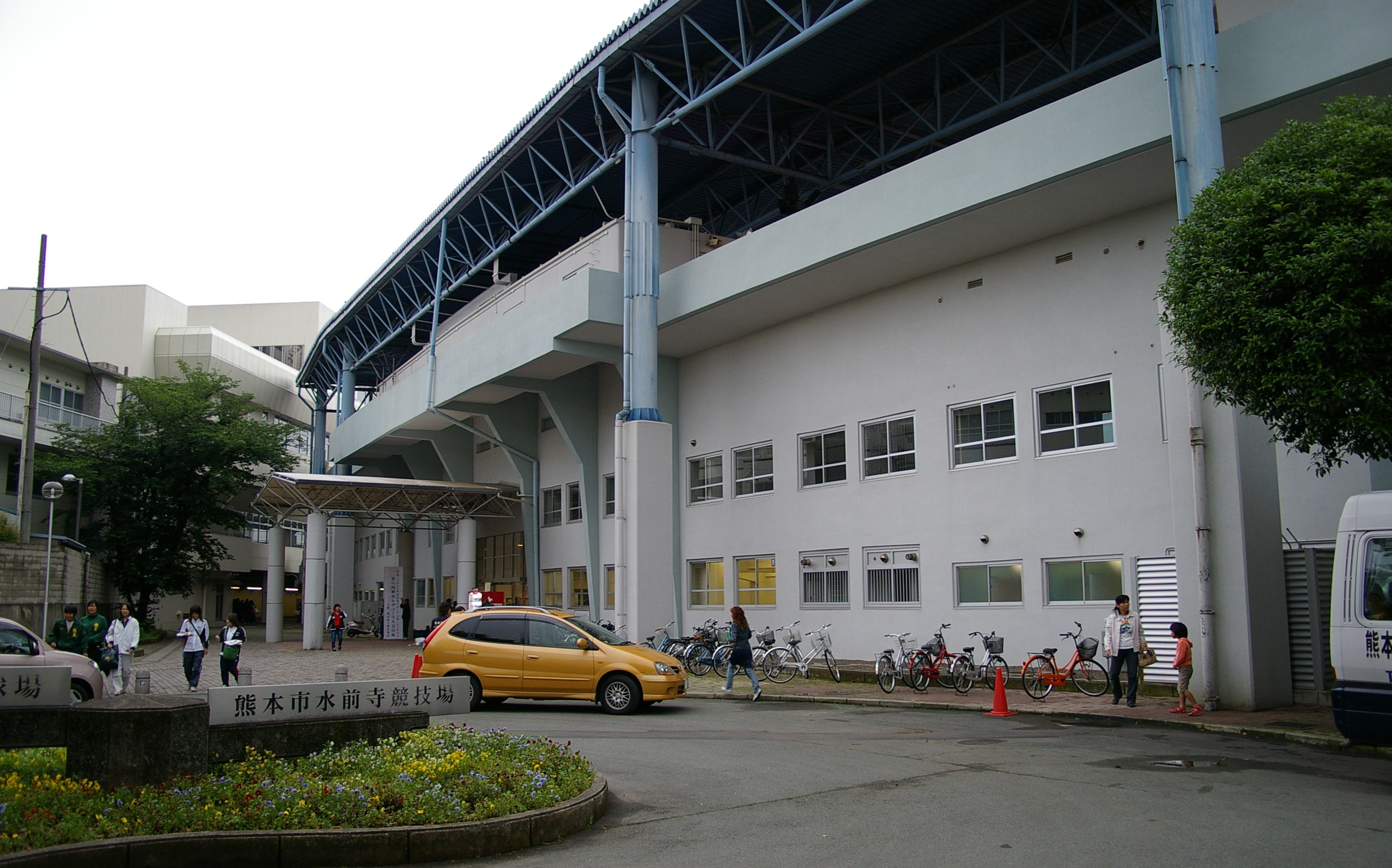 Suizenji Athletic Stadium in Kumamoto City, Kumamoto Prefecture, Japan